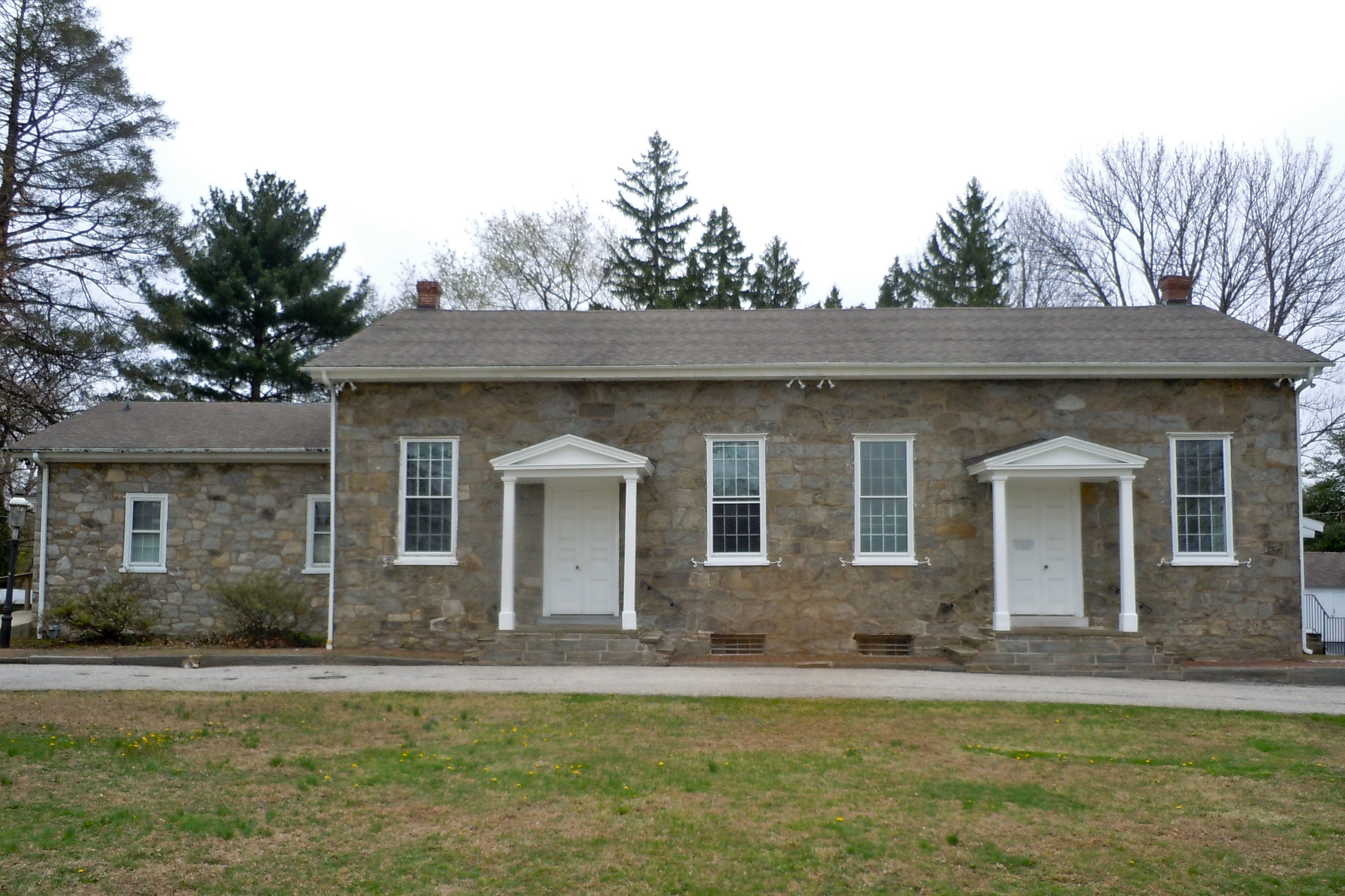 Springfield Friends Meeting . PHMC state historical marker dedicated Thursday, October 25, 1951. At SR 2009 (Old Sproul & W. Springfield Rds.), Springfield, Pennsylvania/ 39.9423°N 75.3471°W Historical topics: Artists, Buildings, Education, Religion Meeting established 1686, present building built 1851. Benjamin West attended meeting here as a boy